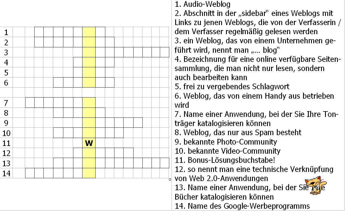 Crossword in German. Created for an examination in a course about social software.